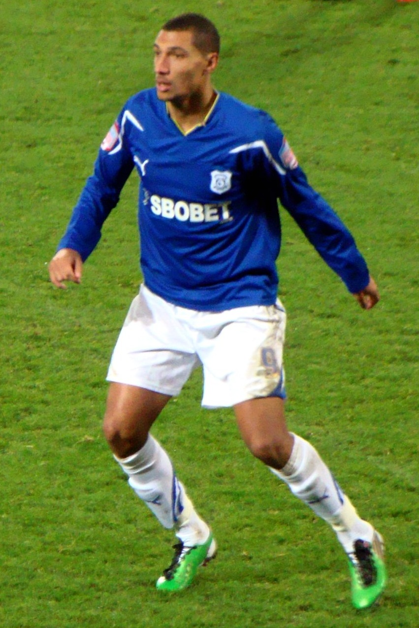 20/11/10 Cardiff V Nottingham Forest, Championship, Cardiff City Stadium, Cardiff, Wales